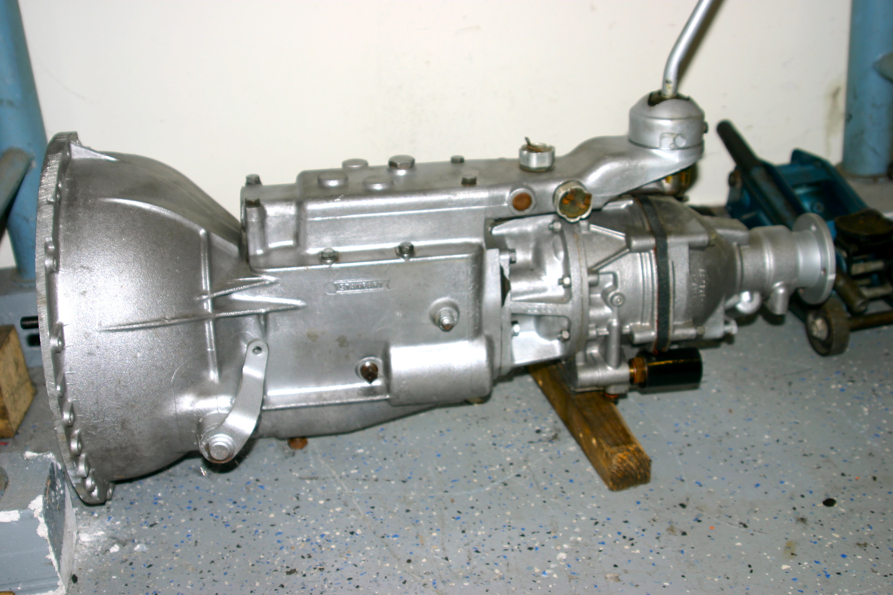 This is a Triumph TR gearbox with additional Laycock de Normanville J Type Overdrive unit.